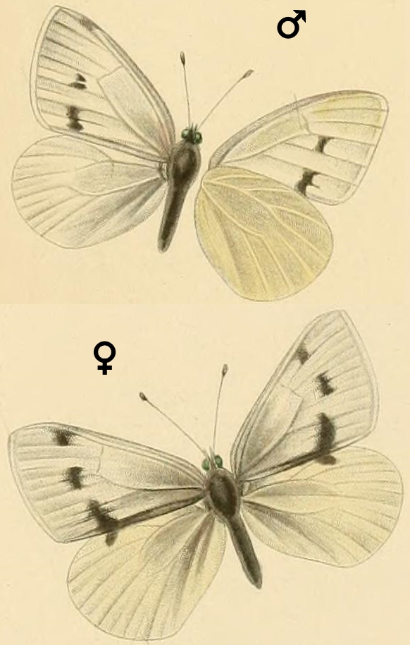 Grum-Grshimailo, 1890 Le Pamir et sa faune lépidoptérologique in Romanoff, Mém. Lép. 4 : 1-576, pl. A,1-21 Plate 6 3a,b Pieris tadjika Grum-Grshimailo, 1888